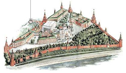 Overview map of the Moscow Kremlin. Location of Kutafya Tower marked.